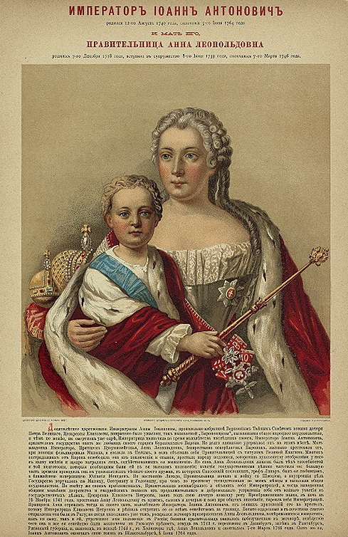 Ivan VI, Emperor of Russia, with his mother Anna Leopoldovna (or possibly with lady-in-waiting Julia Mengden)